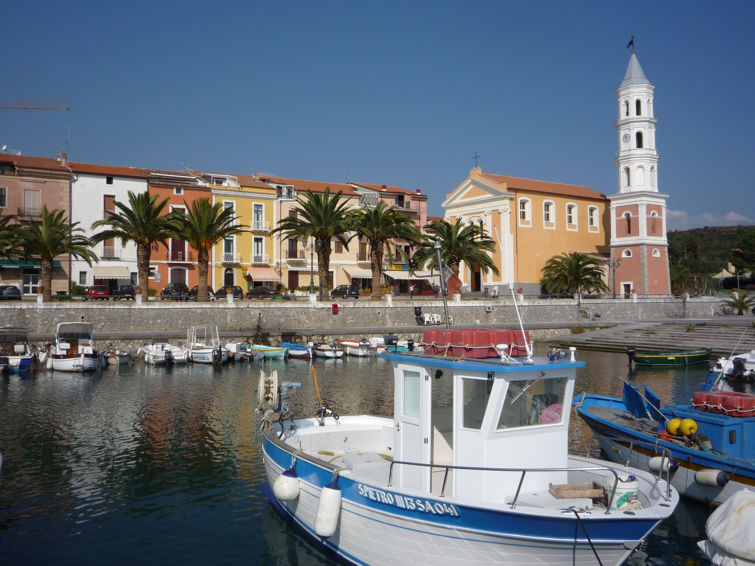 View of the port of Scario in Campania, Italy.